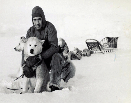 Sgt. Joseph D. Healy in Greenland with sled dogs. Part of Bernt Balchen's rescue team.